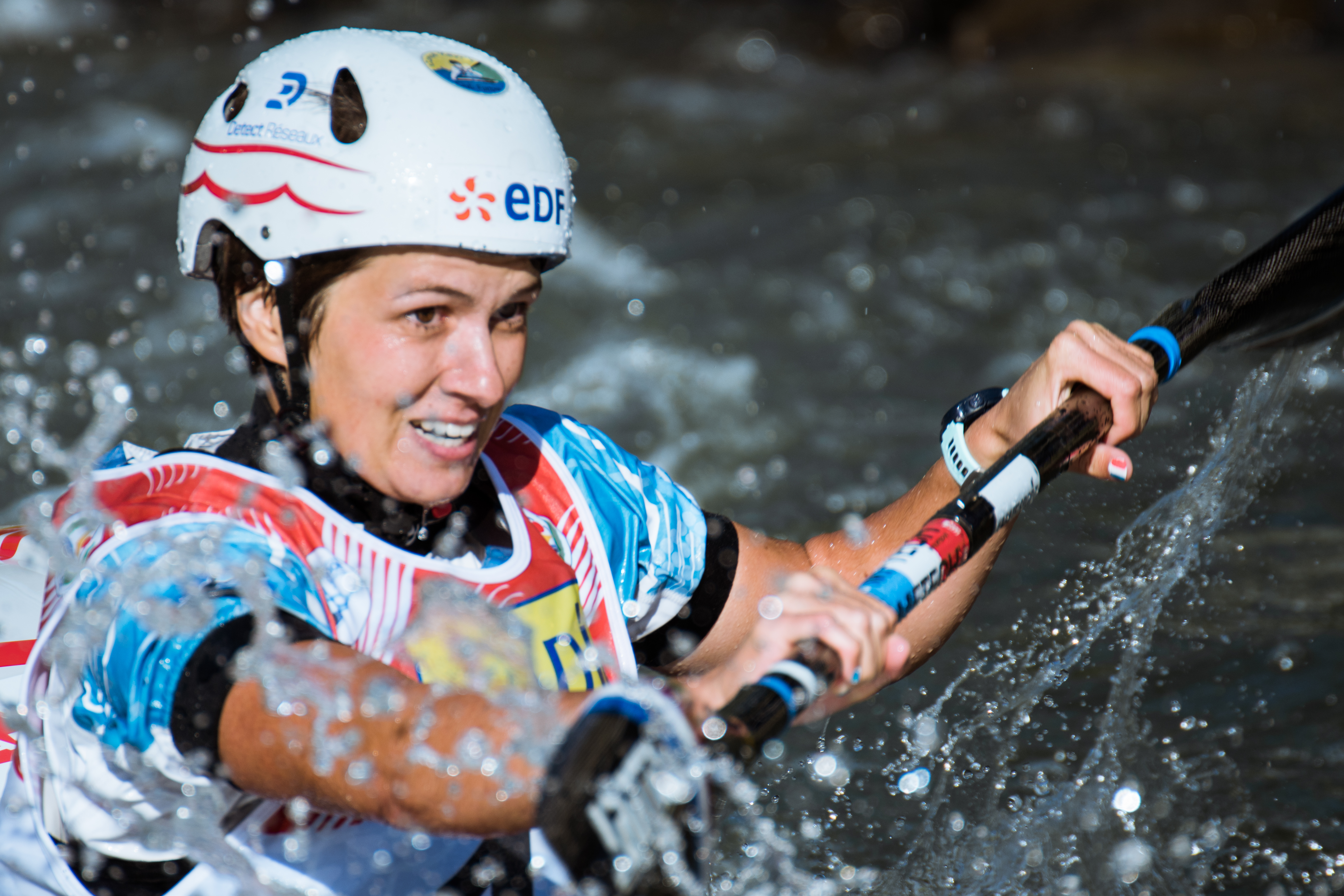 Lise Vinet during the 2019 Canoe Wildwater World Championships in La Seu d'Urgell, Spain.